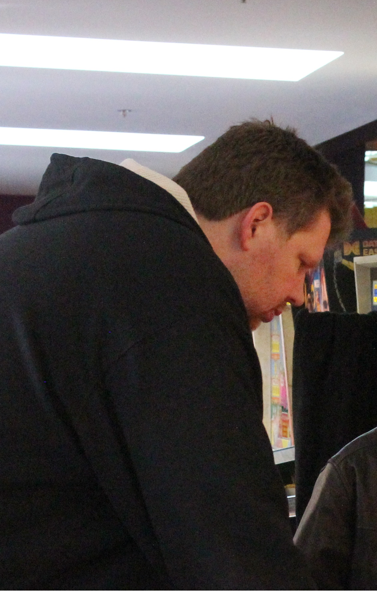 Former Philadelphia 76ers center Todd MacCulloch. He is now a highly ranked pinball player. Dean Grover watches.